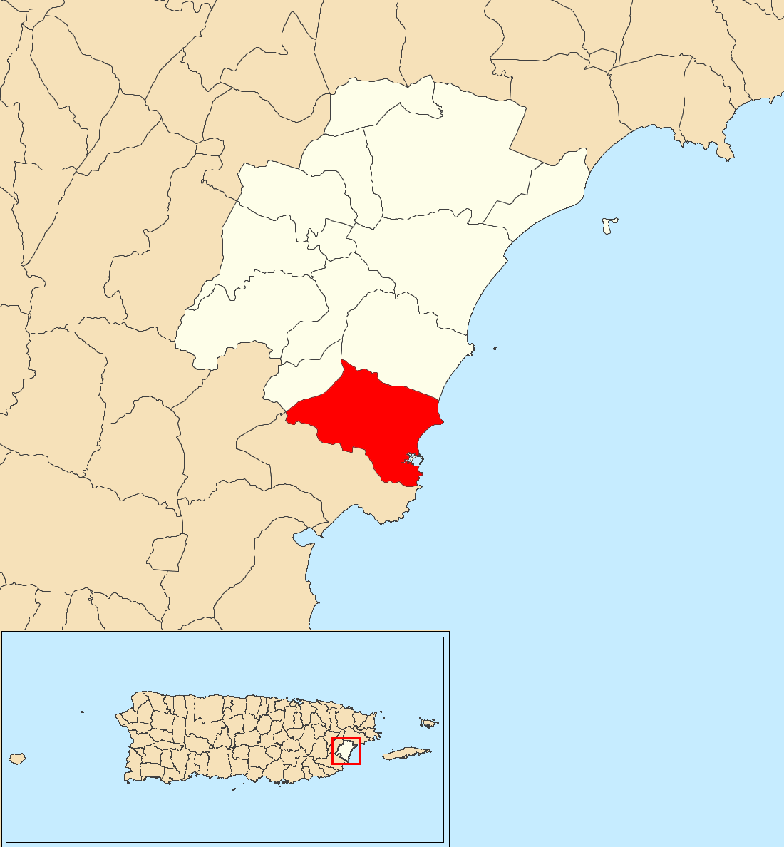 Candelero Abajo, Humacao, Puerto Rico locator map